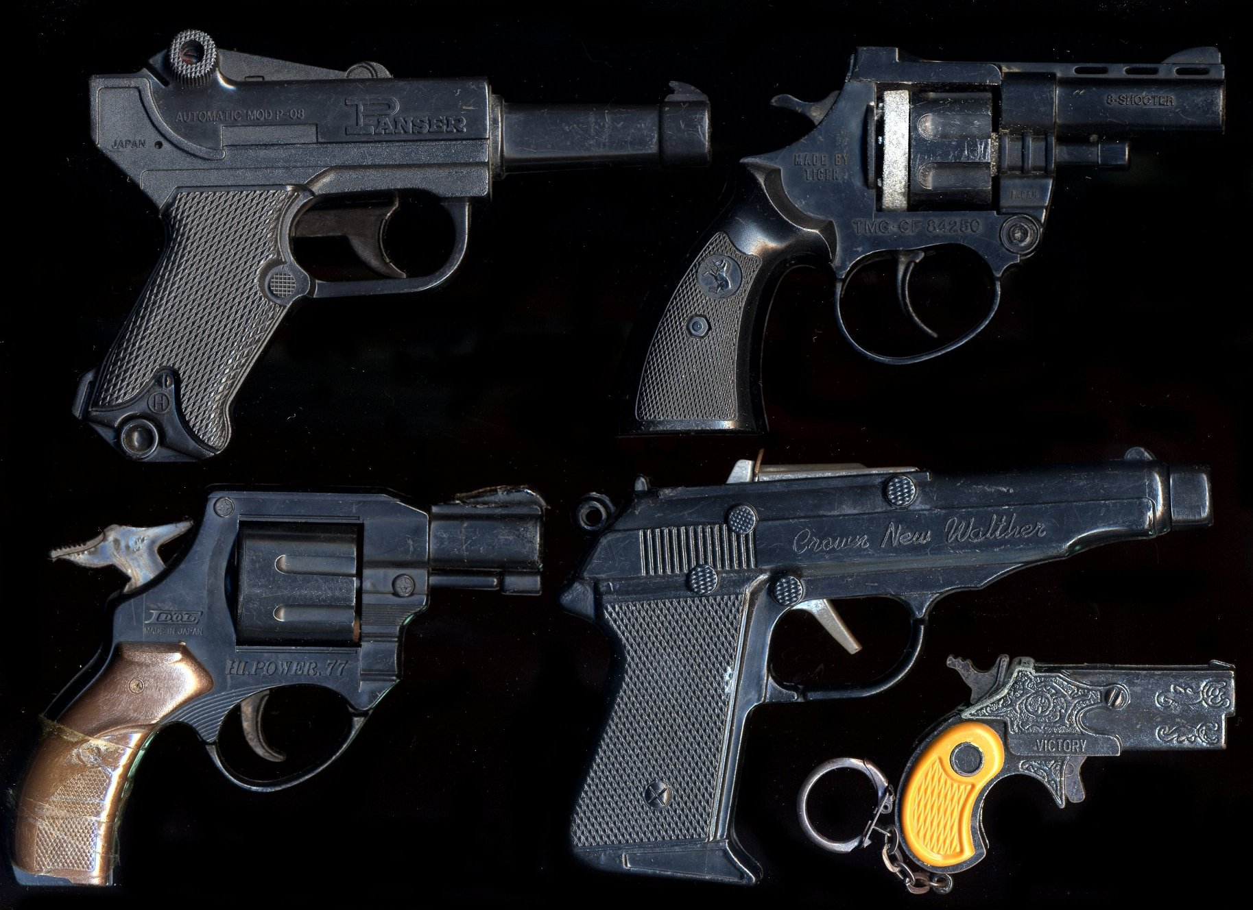 spring_operated_gun_toys